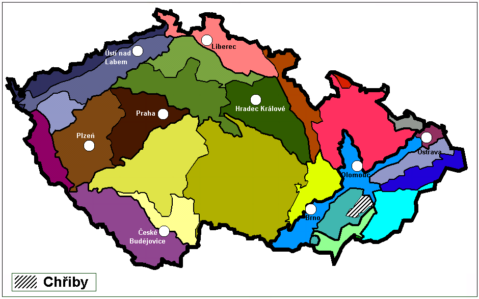 Chiby